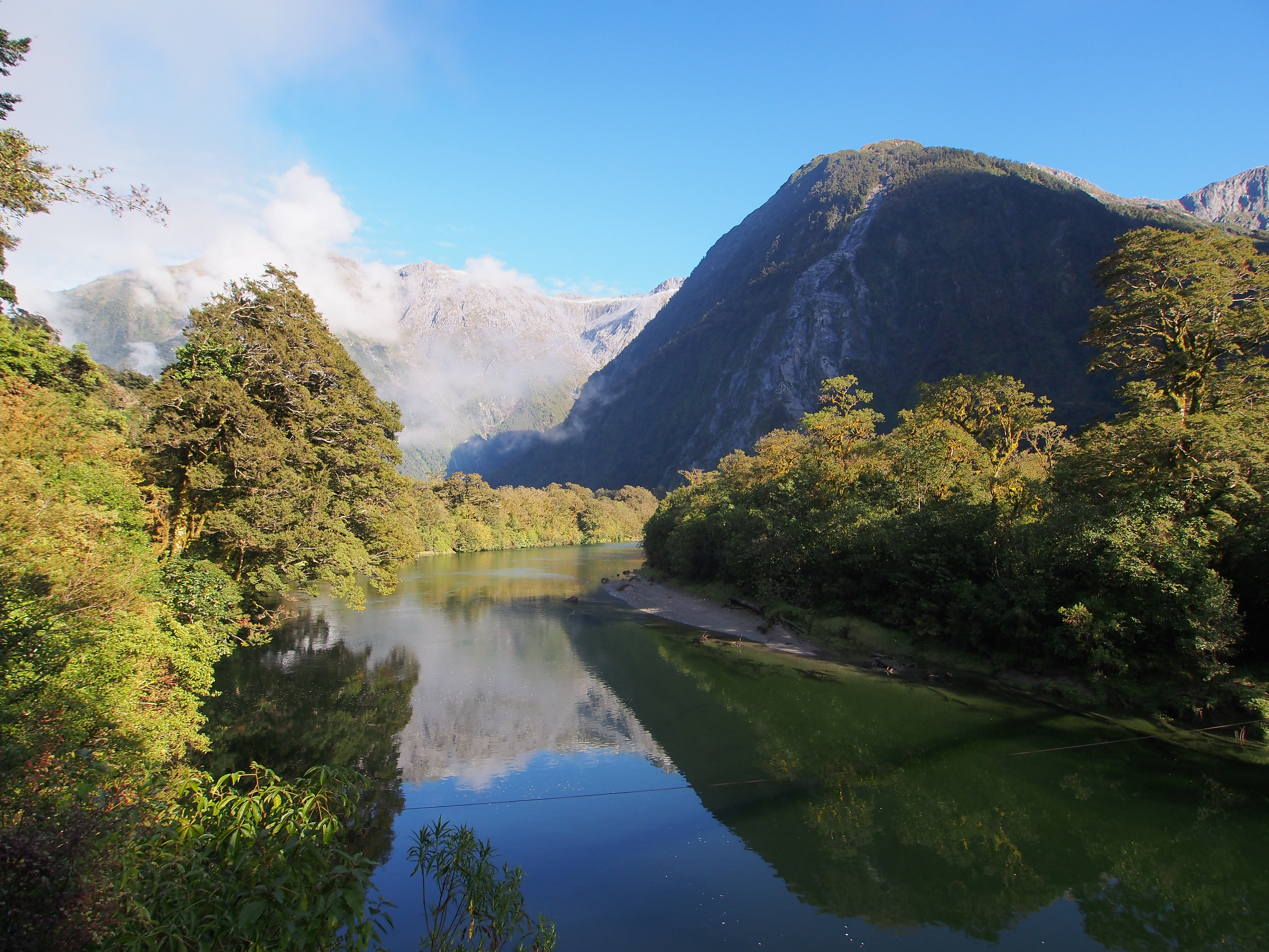 Arthur River - 2013.04